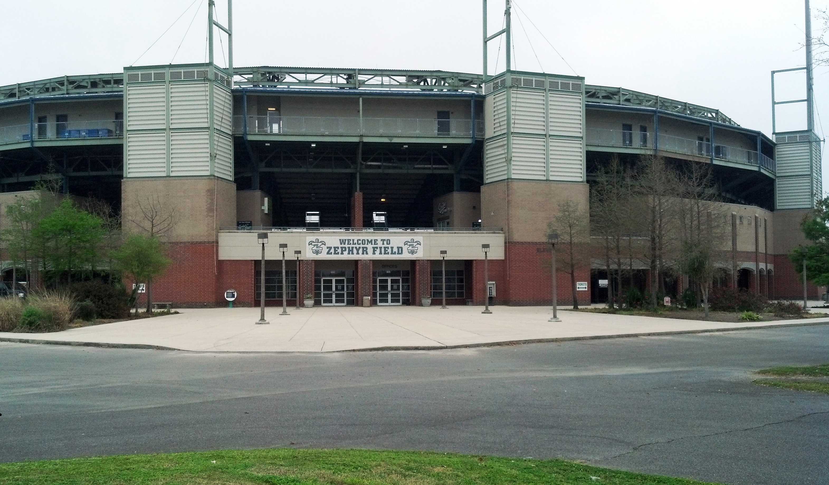 Zephyr Field